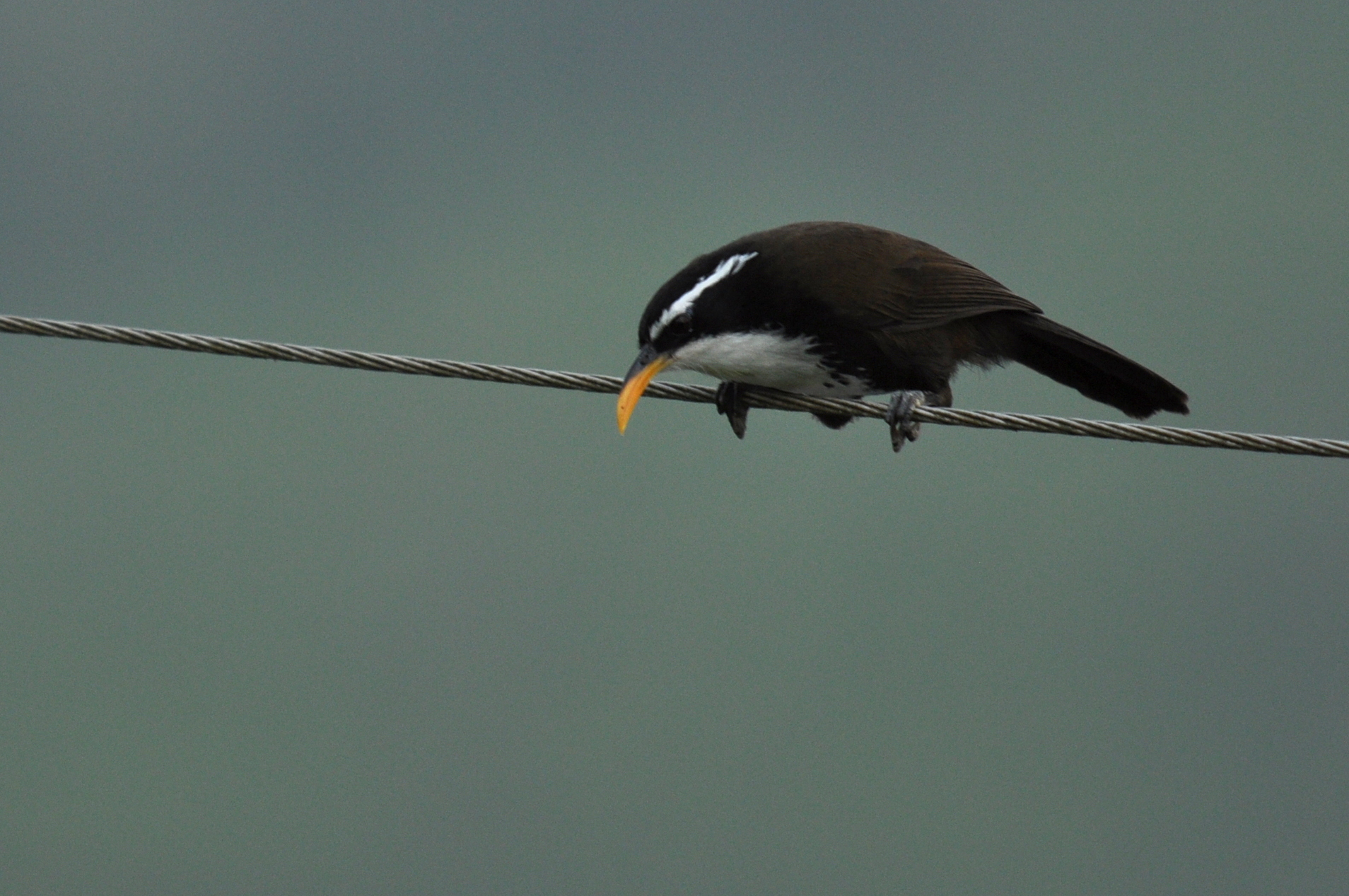 Indian Scimitar-Babbler in the Anamalai hills, India